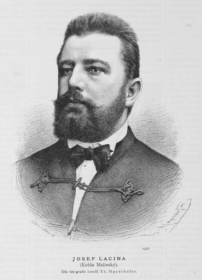 Portrait of Josef Lacina (1850-1908), Czech historian and writer, also known under pen-name Kolda Malínský.